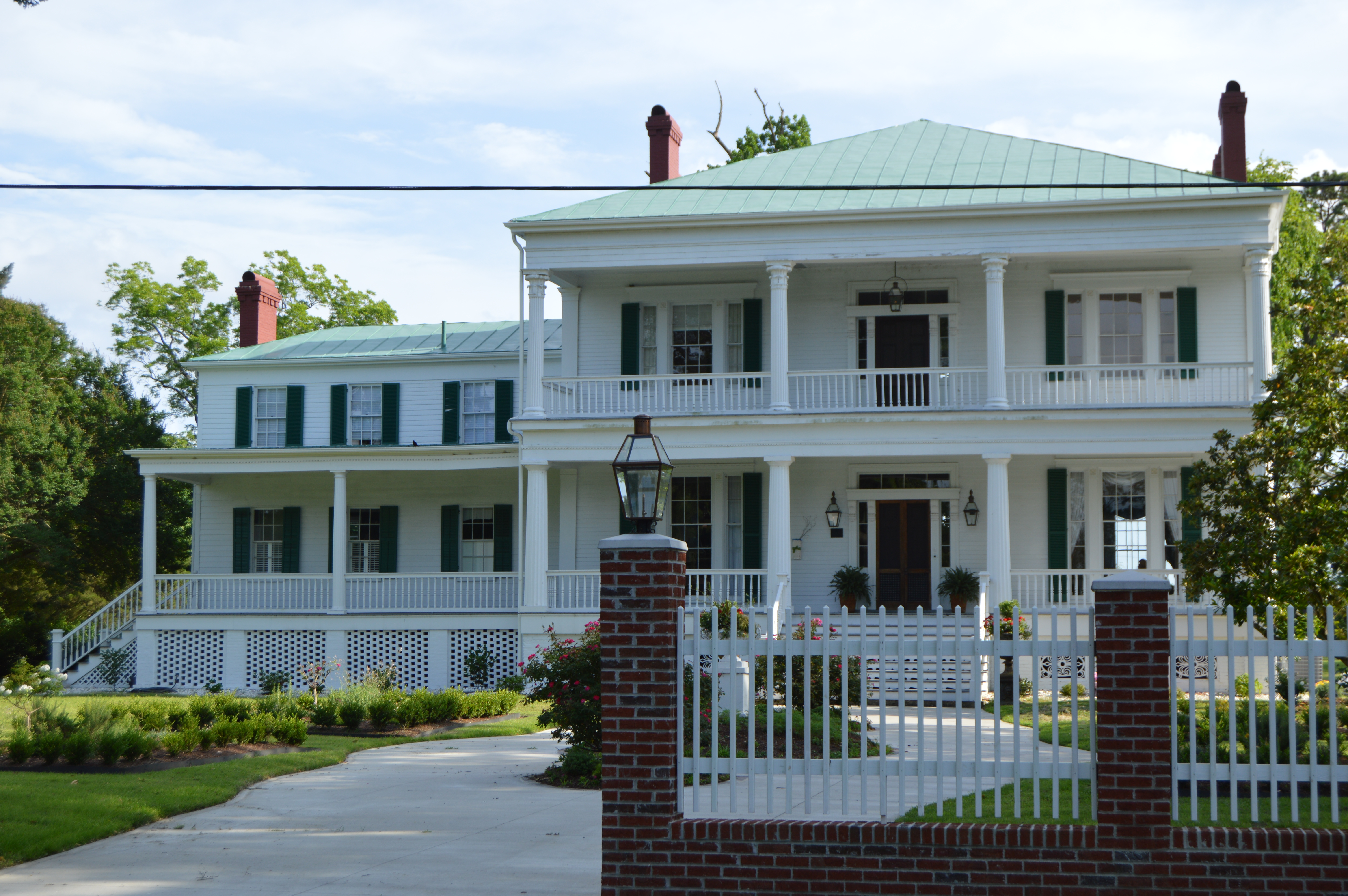 Front of Pembroke Hall, located on King Street east of Granville Street in Edenton, North Carolina, United States. Built in 1849, it is listed on the National Register of Historic Places.